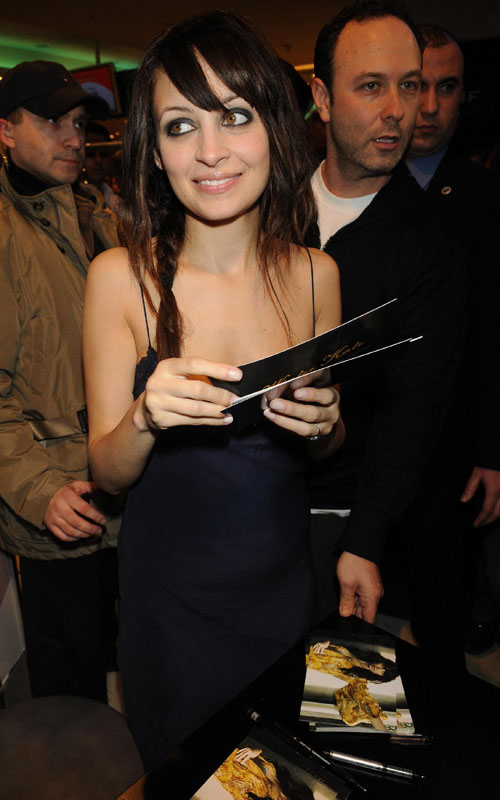 Nicole Richie in february 2010 at Promoting Winter Kate collection in Paris, France.